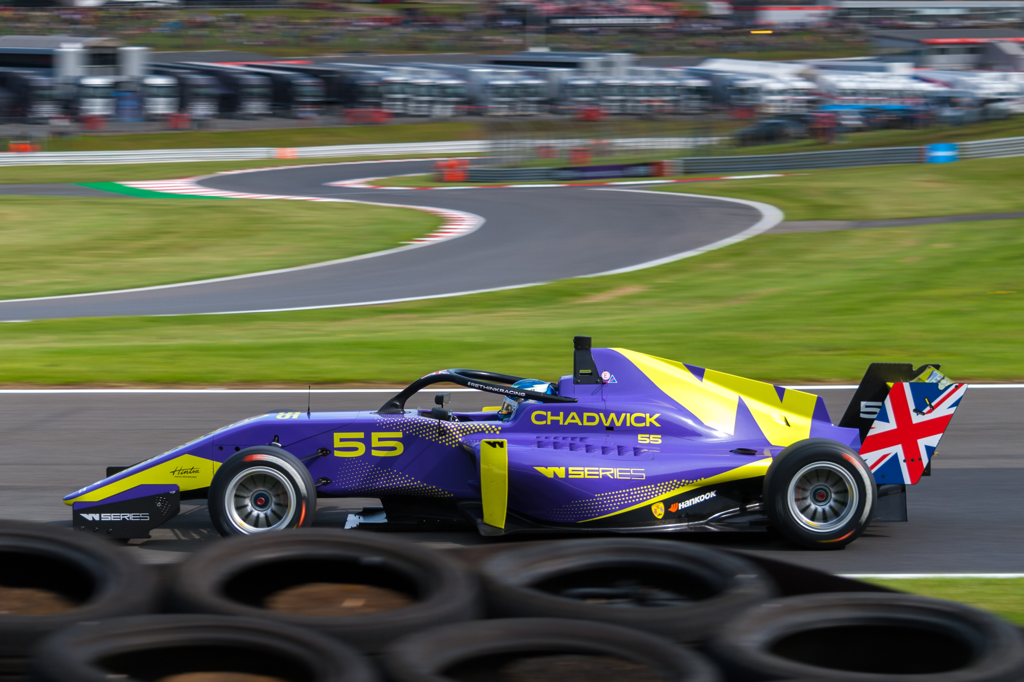 Jamie Chadwick at the W Series final at Brands Hatch